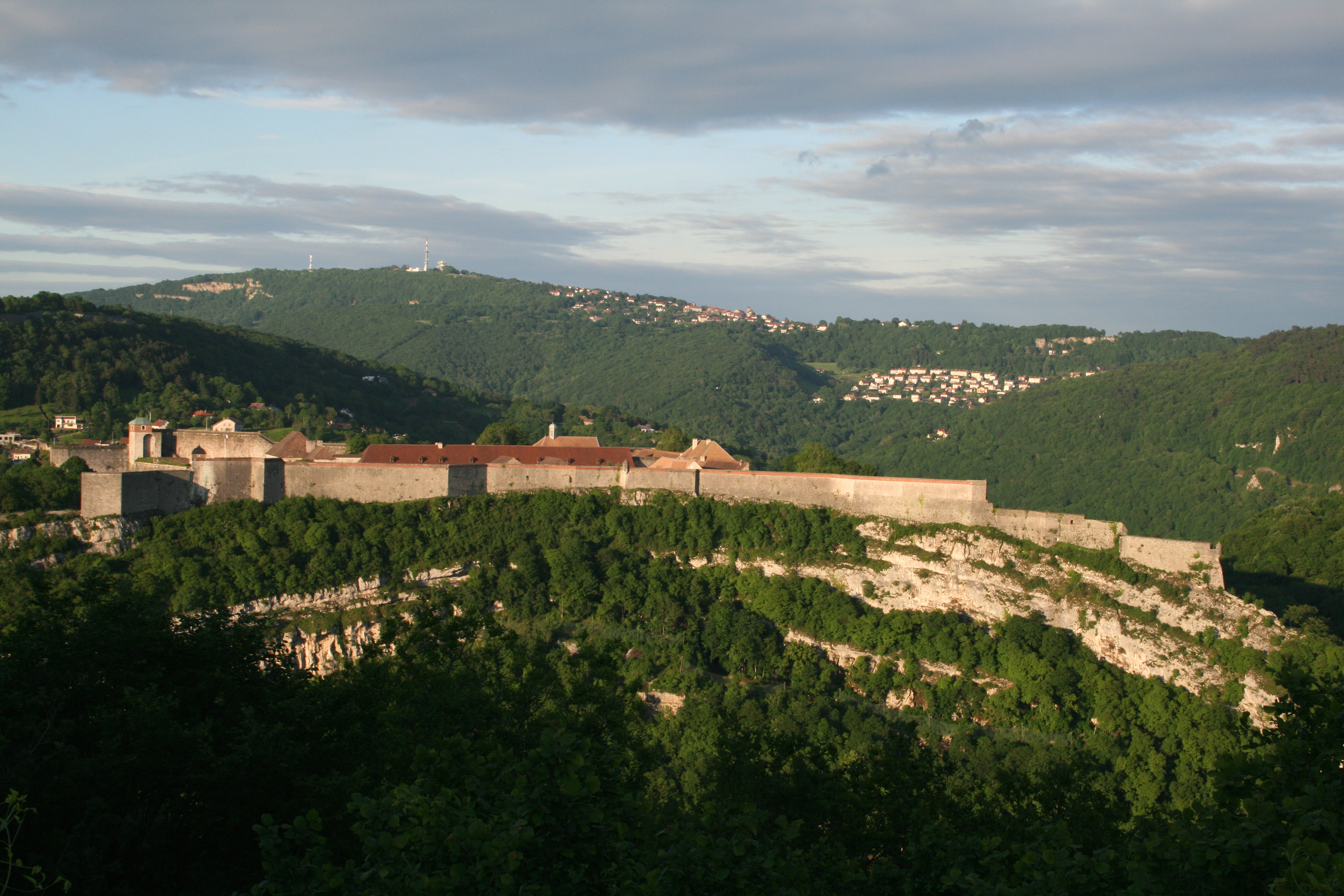 The citadel of Besançon, France (Franche-Comté) - Miltary architect Sébastien Le Prestre de Vauban.